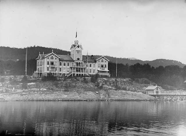 Grand Hotel in Molde was built in 1885. Photo between 1885 and 1890. It burned down in 1919.